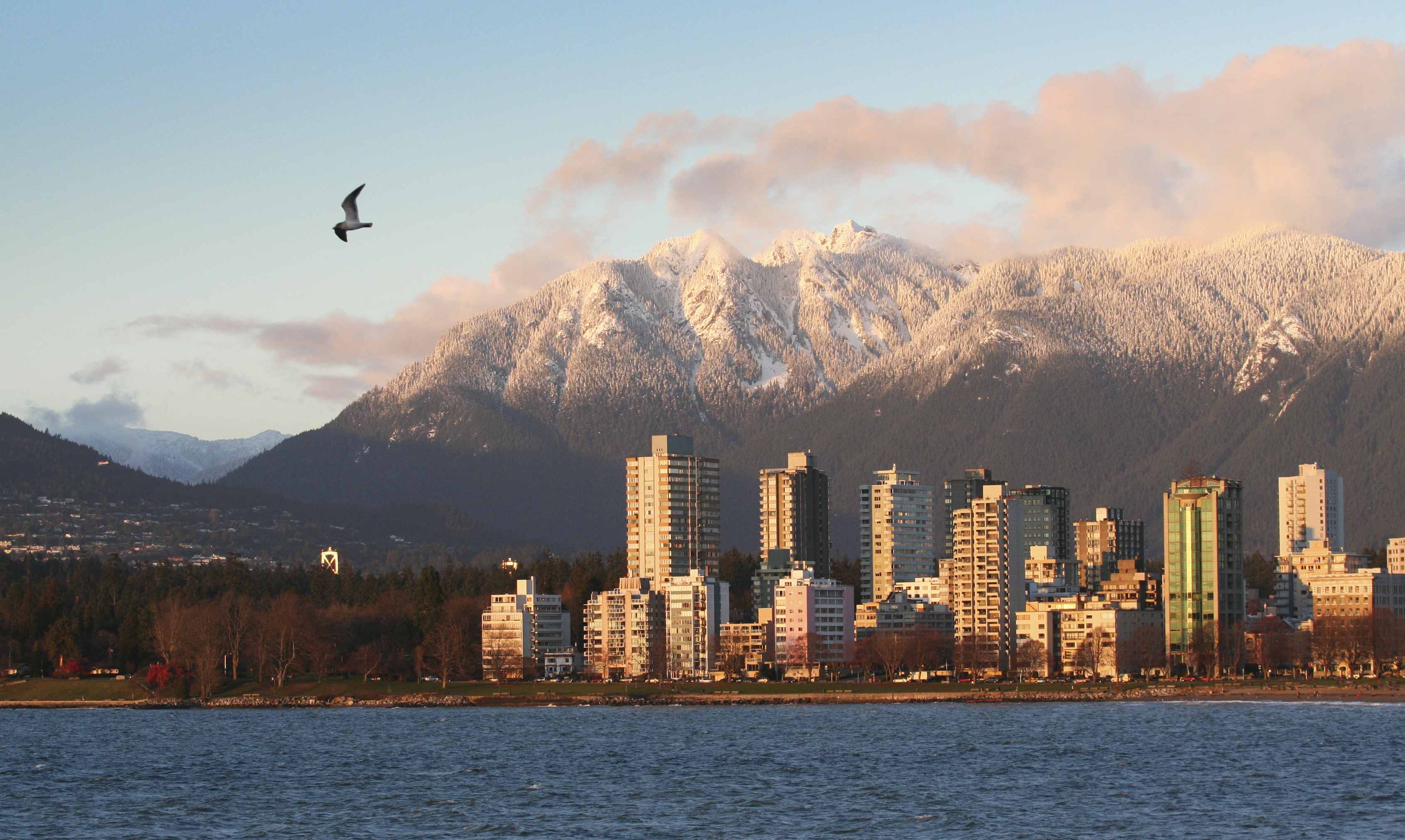 View of Vancouver West End and mountaints at sunset. Seagull too.